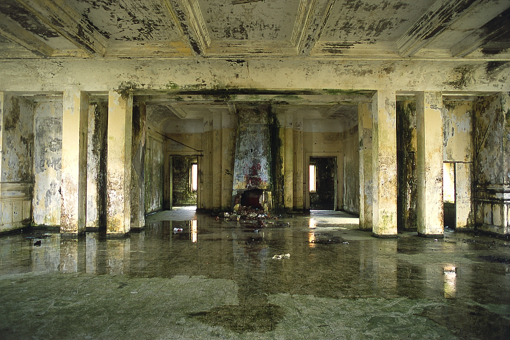 Bokor Palace, interior